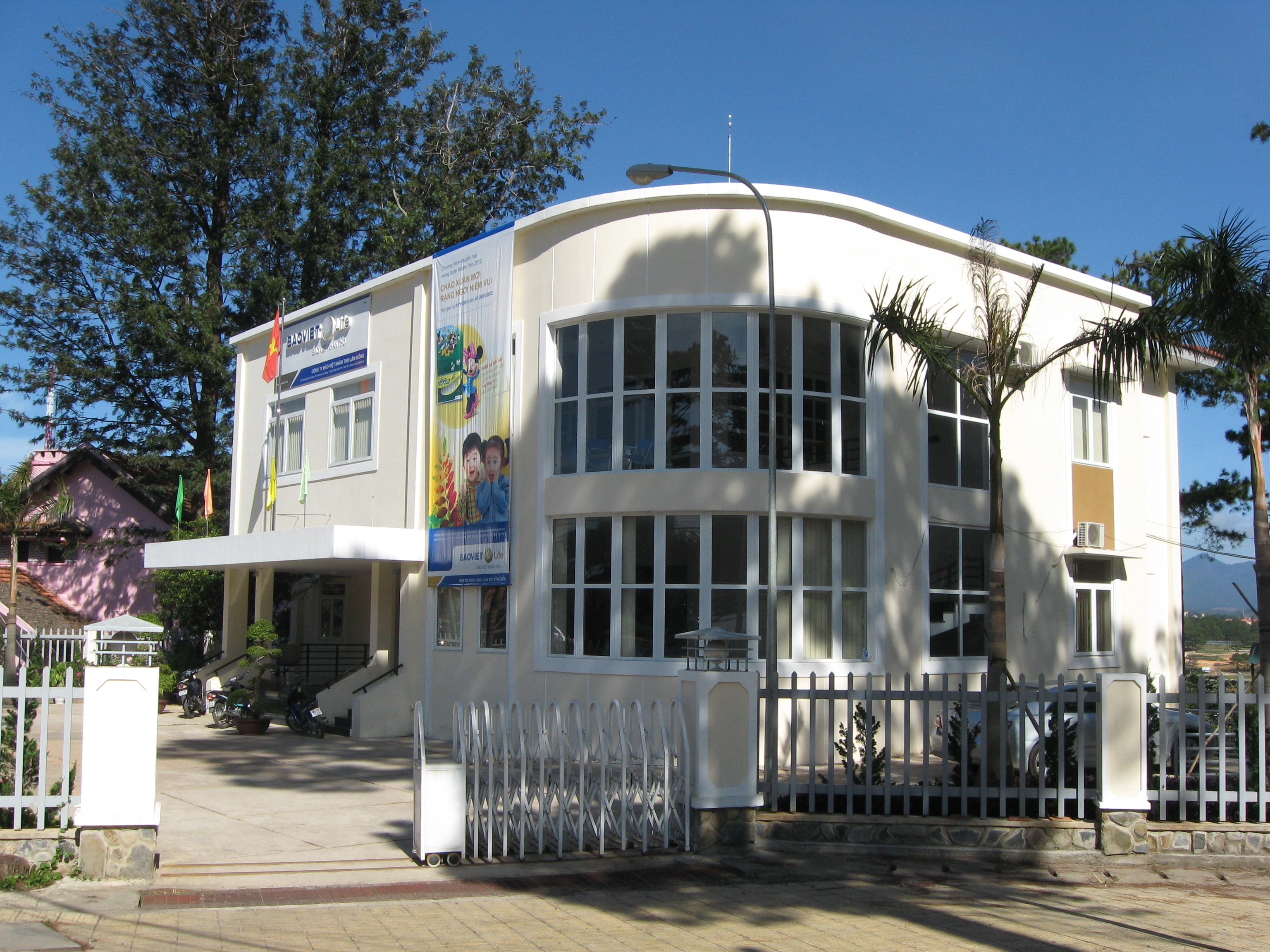 Bao Viet Life, Da Lat